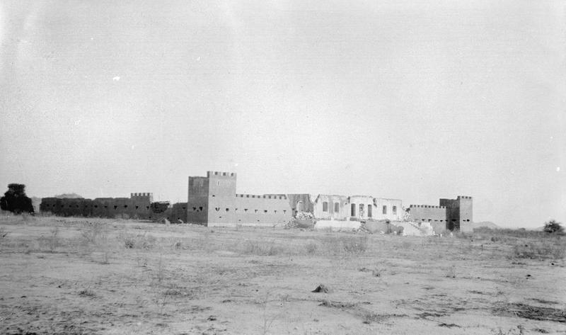 Colonial Office Collection Exterior of German Fort near Mora, Cameroons.